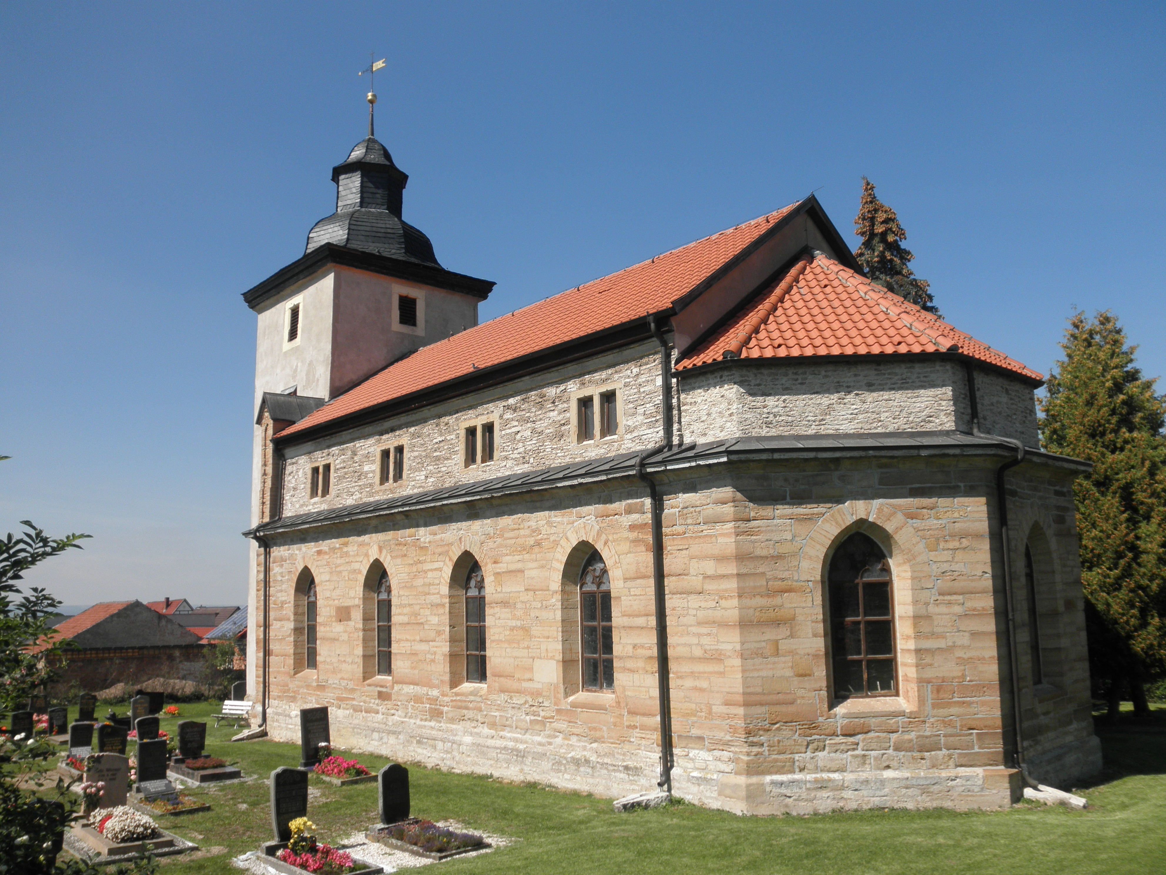 Church in Issersheilingen in Thuringia